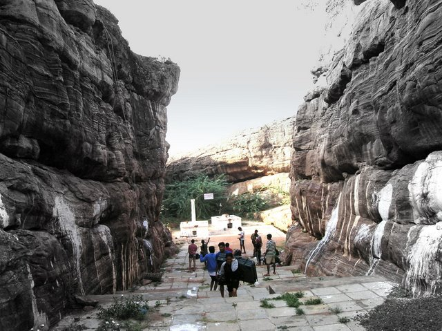 Bolted climbs, Temple Area, Badami, Karnataka, India